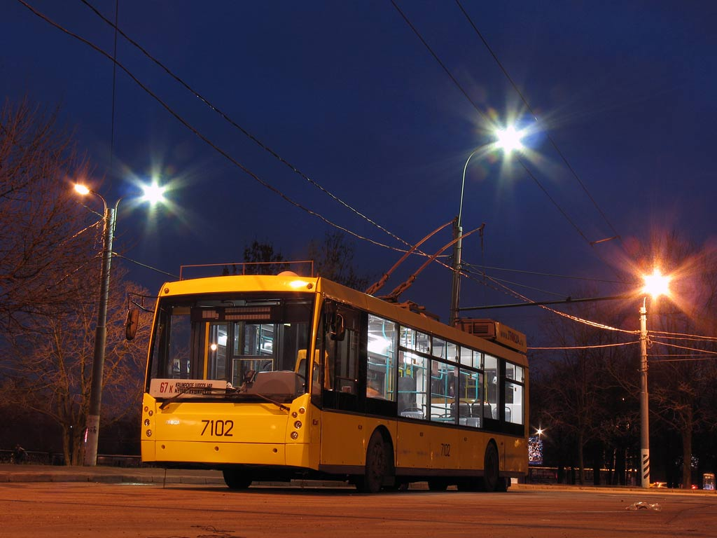 Moscow, trolleybus Trolza-5265 "Megapolis". Metro Kashirskaya.